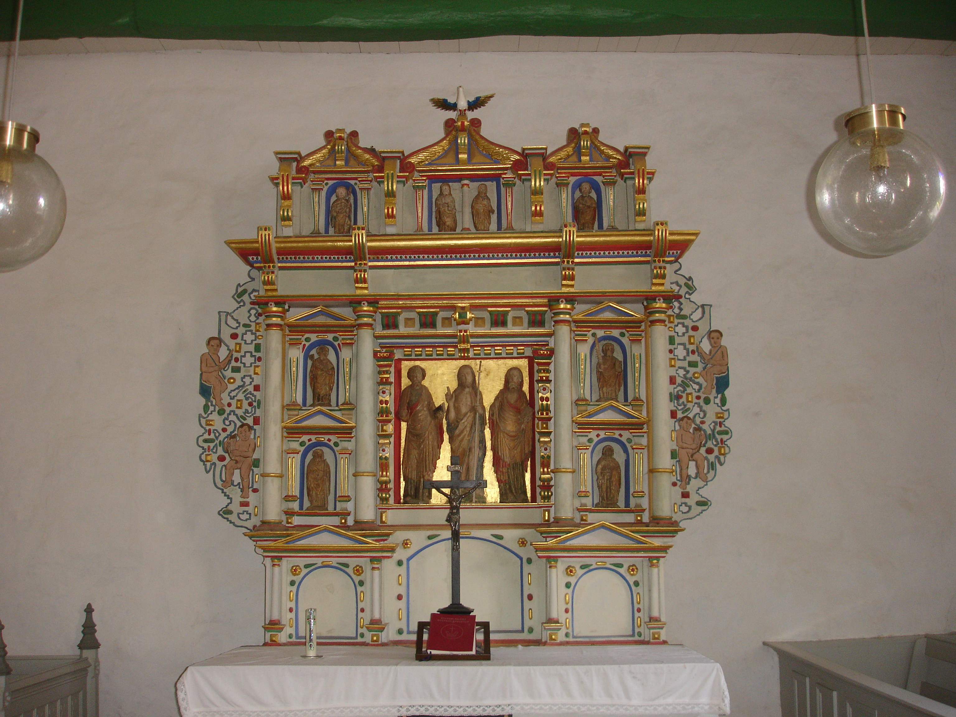 Church in Prestin, district Ludwigslust-Parchim, Mecklenburg-Vorpommern, GermanyAltar